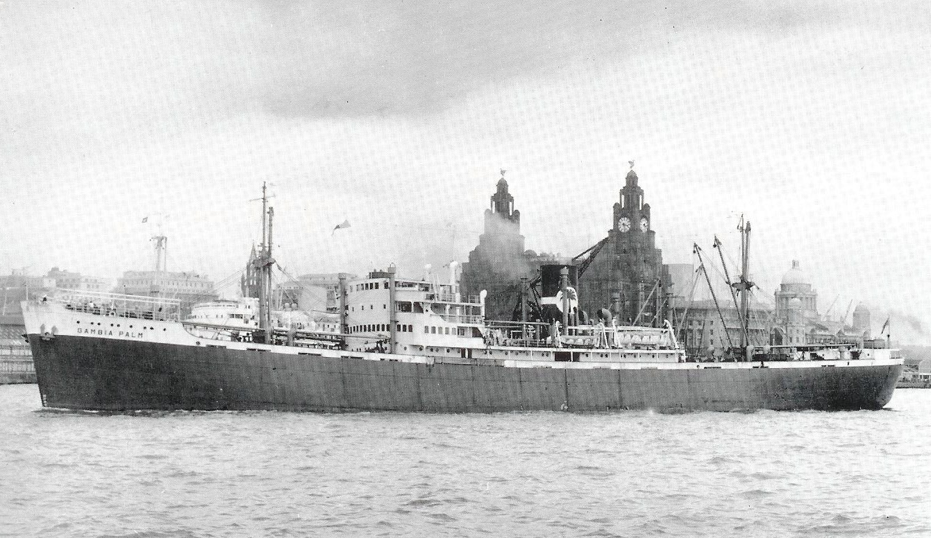 United Africa Line 5,452 GRT motor ship Gambia Palm in the Mersey off Liverpool. built at Wesermünde, Germany in 1937 as Gambian and registered in Freetown, Sierra Leone. Renamed St Gabriel in about 1941. Renamed Empire Tweed in about 1943. Renamed Gambian and registered in London about 1945.